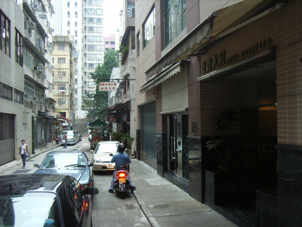 灣仔舊區街道 Wanchai old streets, Hong Kong. (A1 Wong East).